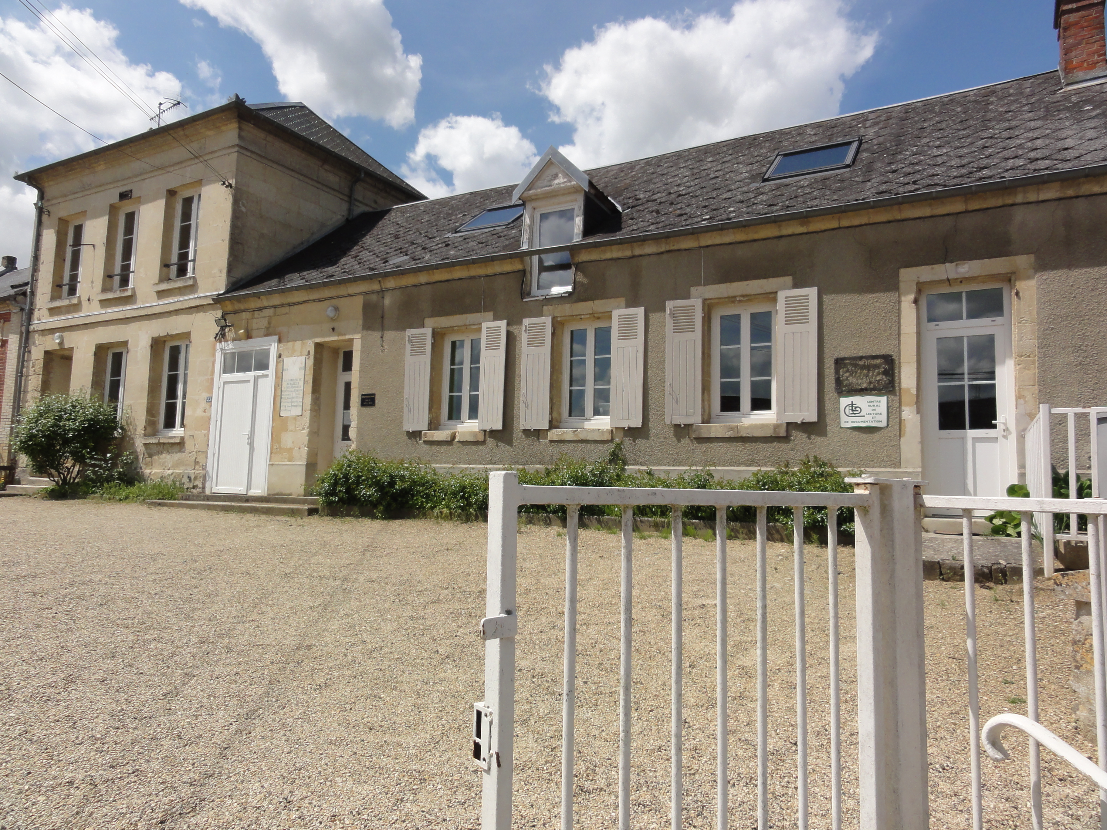 Merlieux-et-Fouquerolles (Aisne) mairie